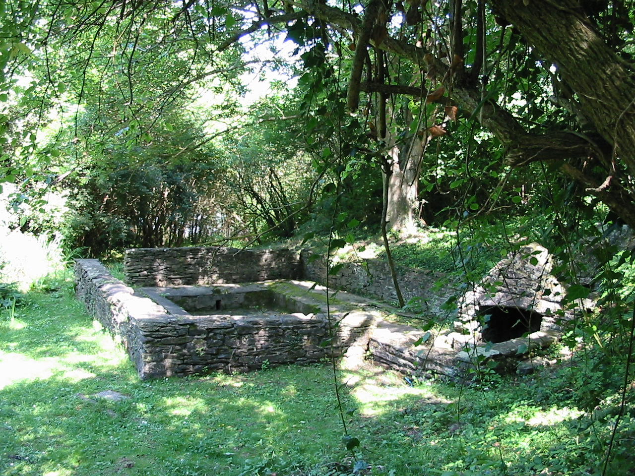 Old wash house on Groix island. Britanny - France